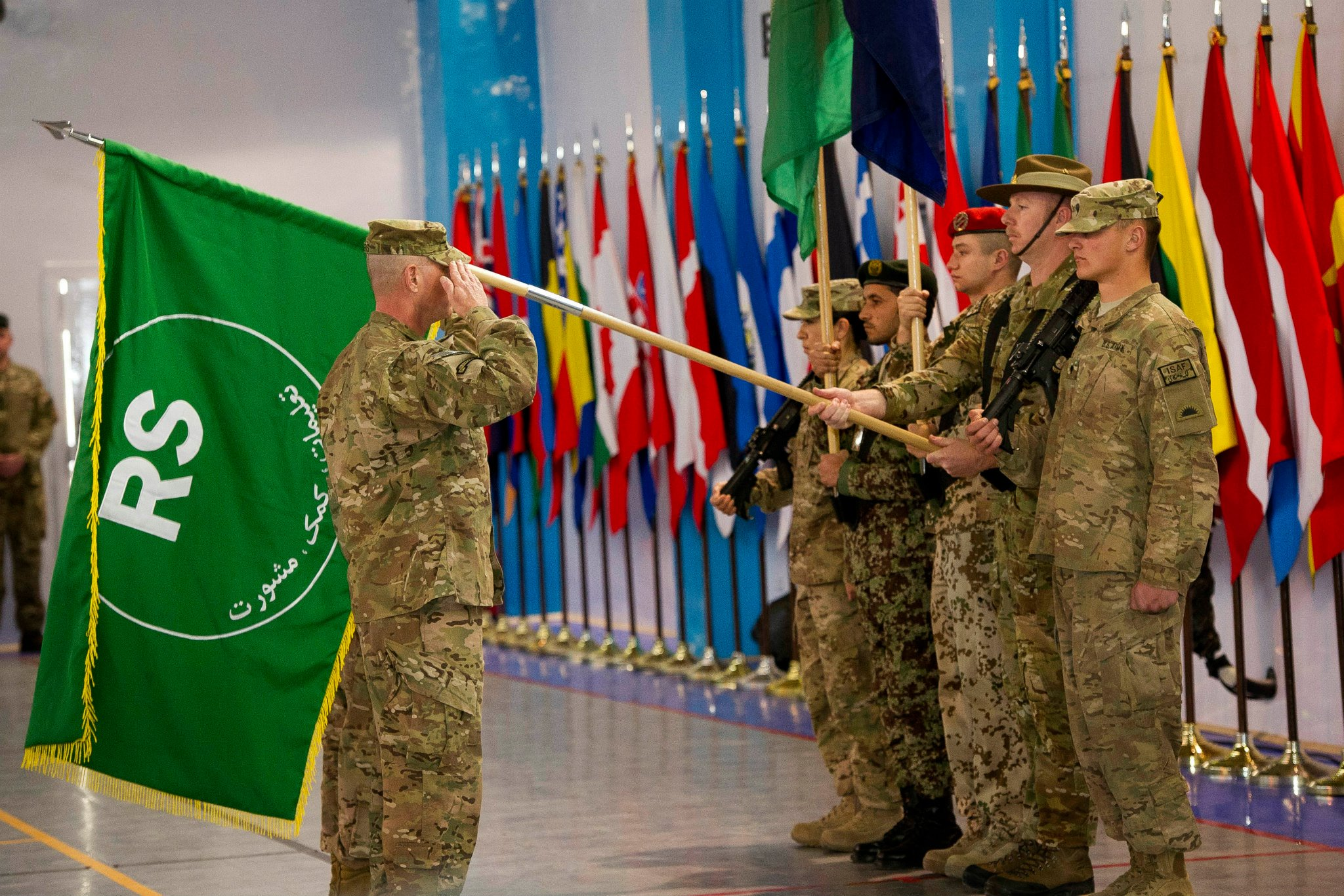 Command Sergeant Major, Delbert D. Byers, salutes during the presentation of the Resolute Support Colors at the Change of Mission Ceremony in Kabul. The North Atlantic Treaty Organization (NATO) Change of Mission Ceremony from International Security Assistance Force (ISAF) to Resolute Support Mission was held, Dec. 28, 2014, in Kabul, Afghanistan.